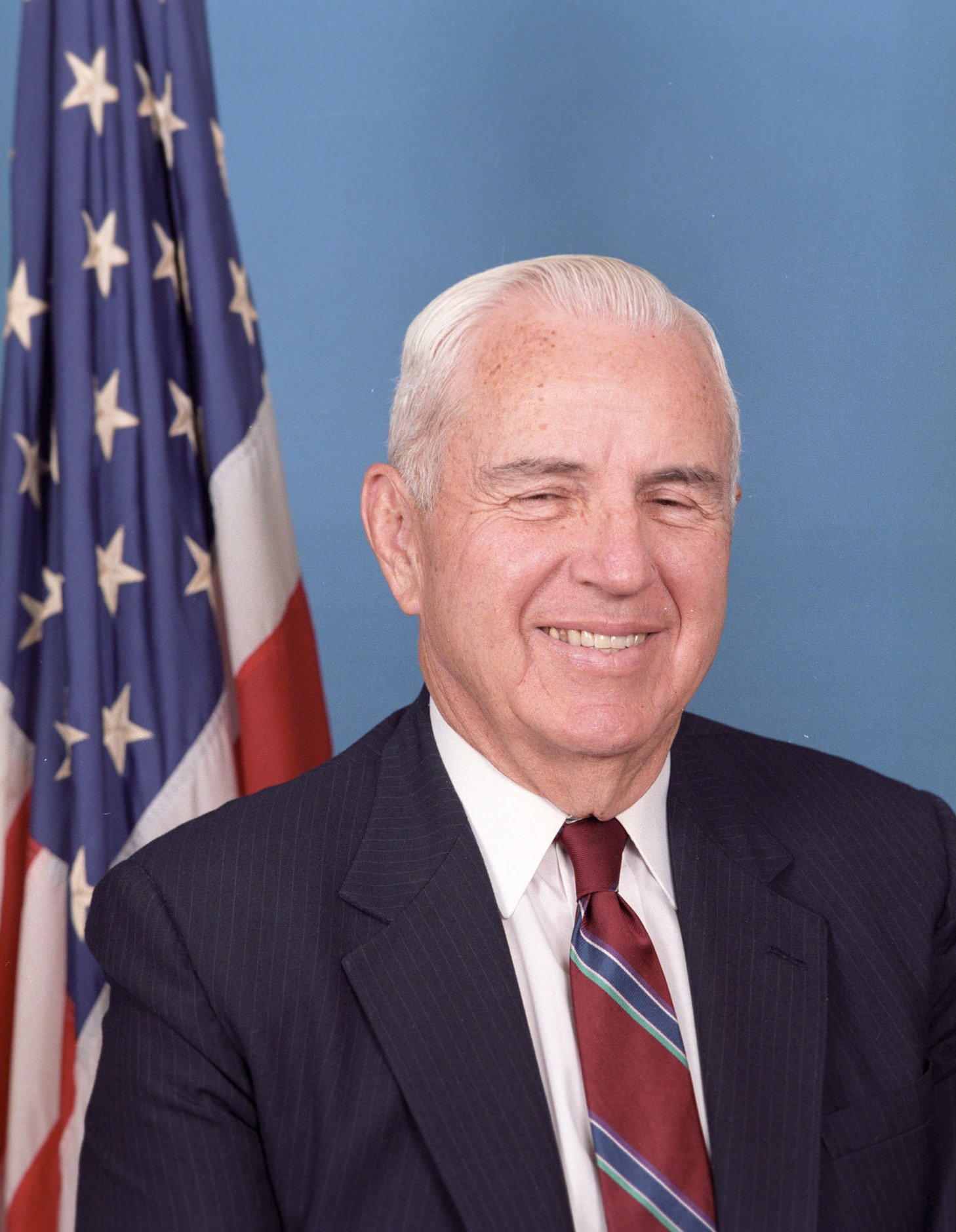 Congressman William F. Nichols